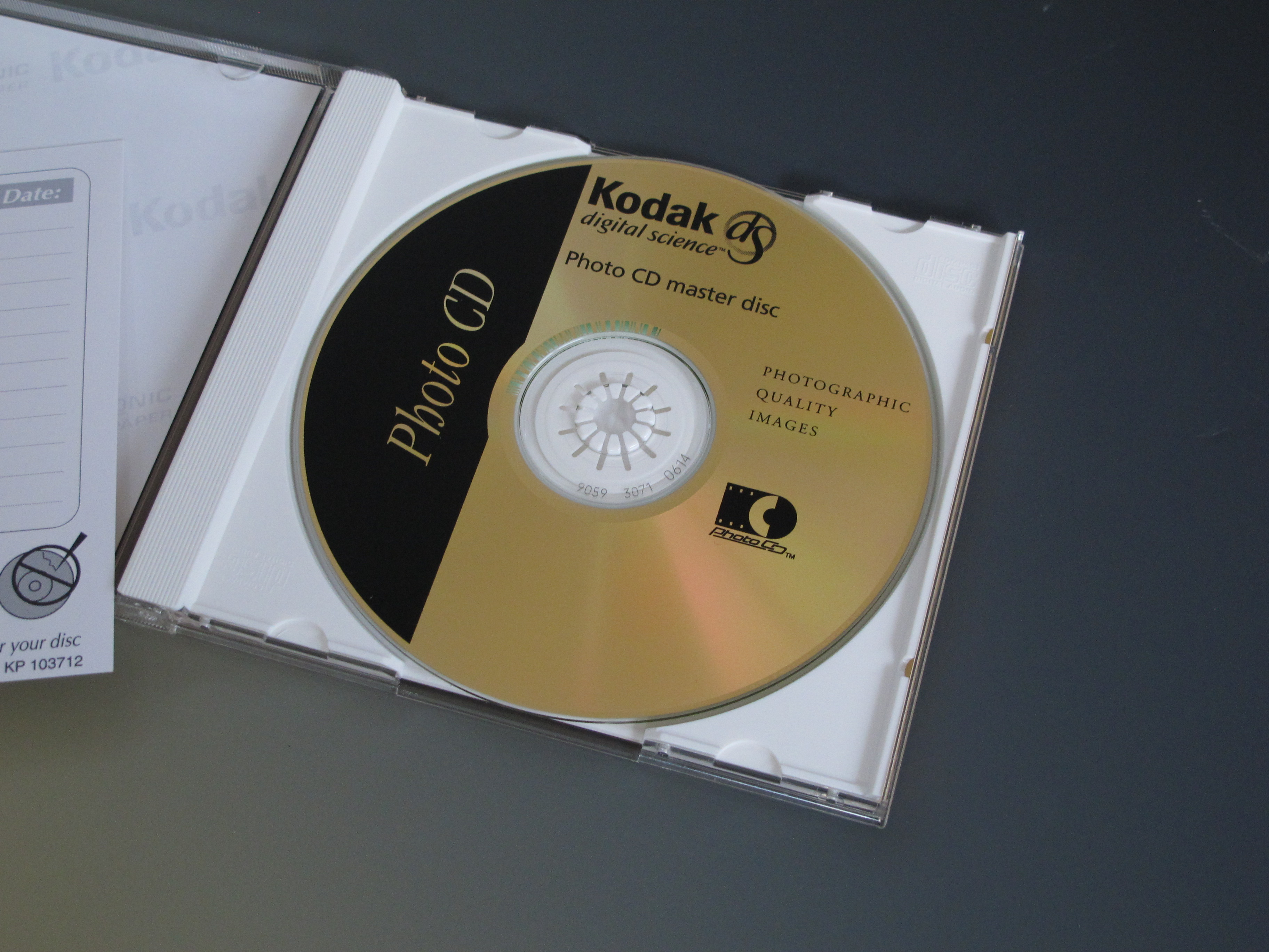 Kodak Photo CD PCD